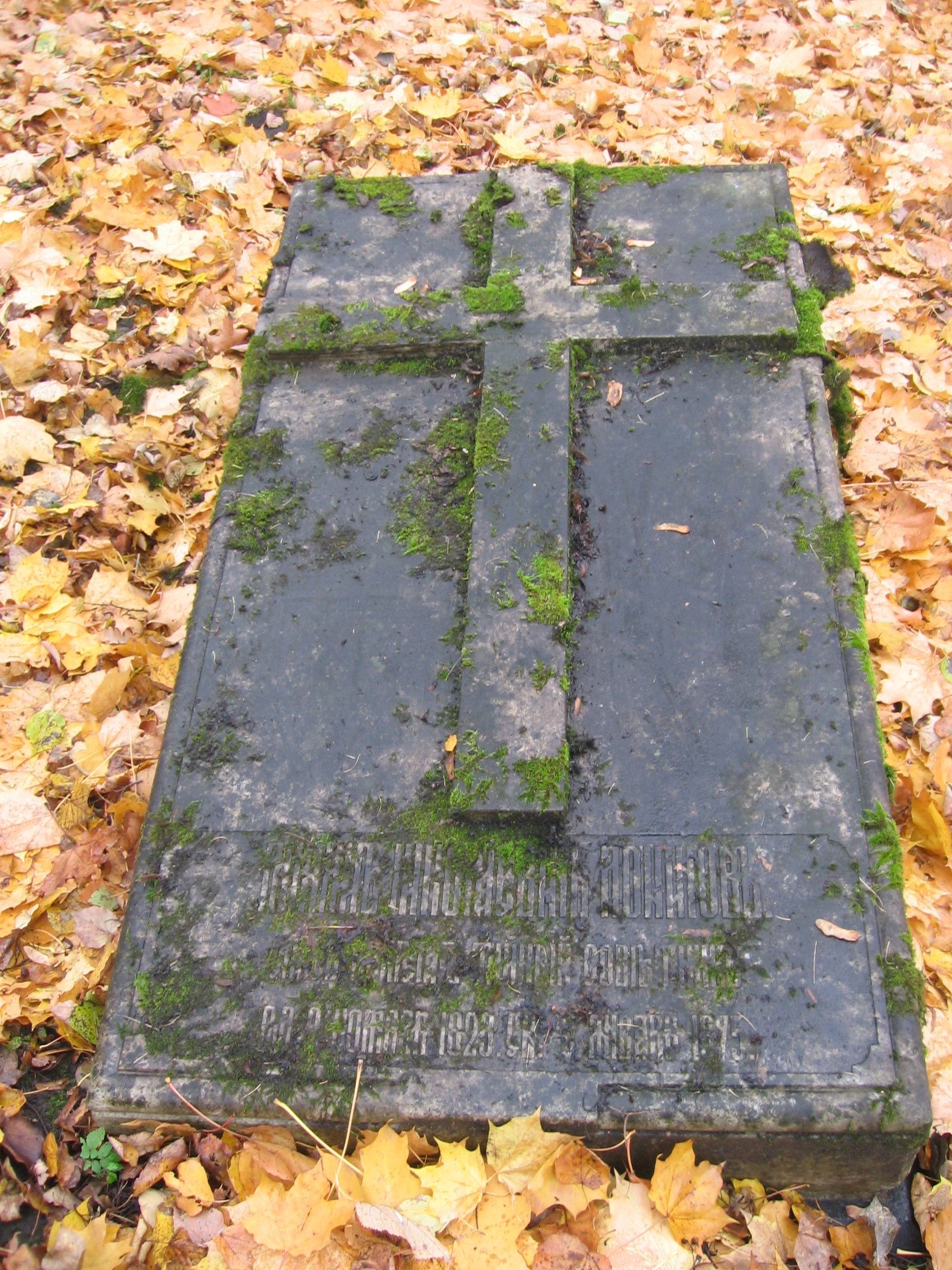 Grave of Mikhail Longinov